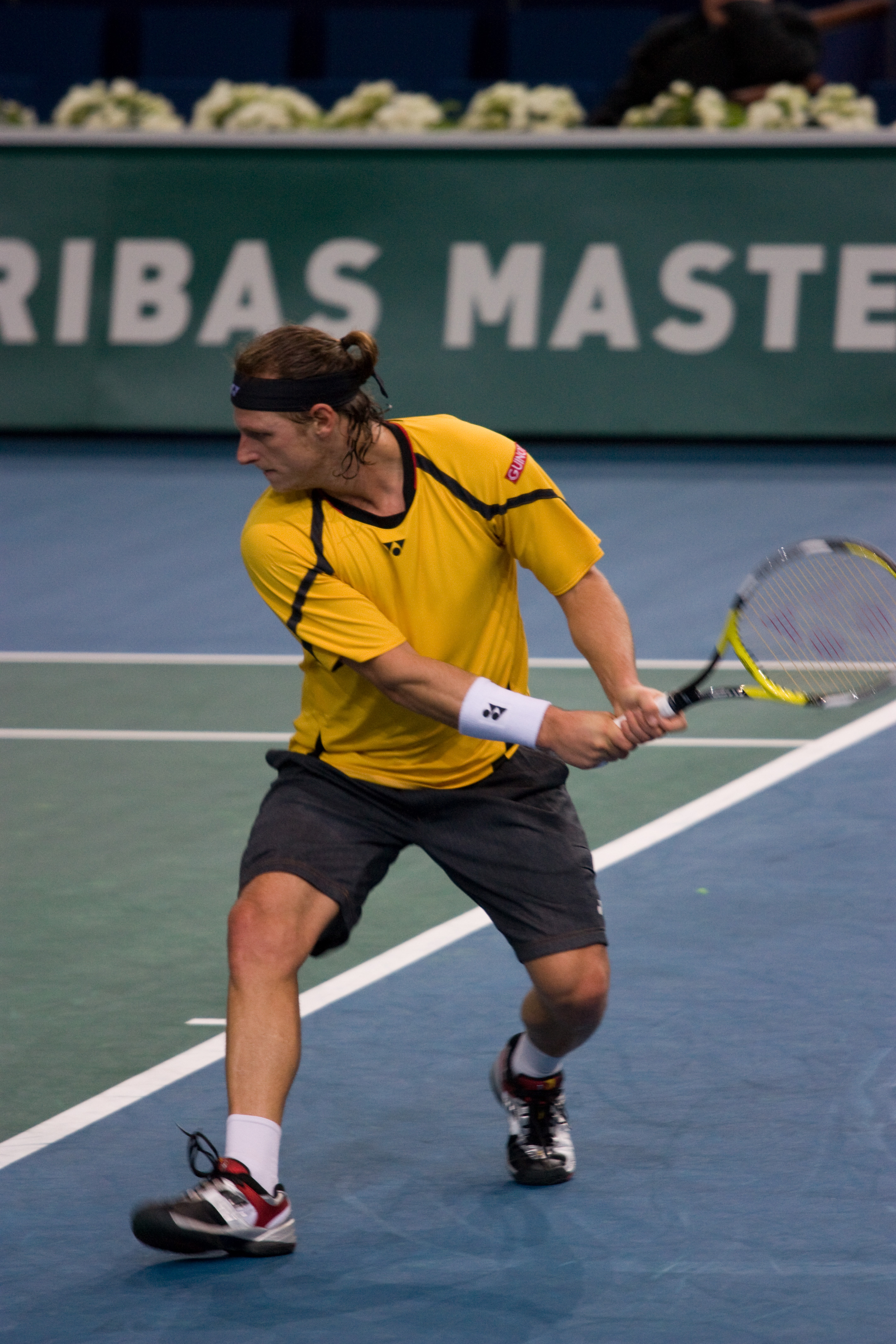 David Nalbandian against Nicolas Kiefer at the 2008 BNP Paribas Masters